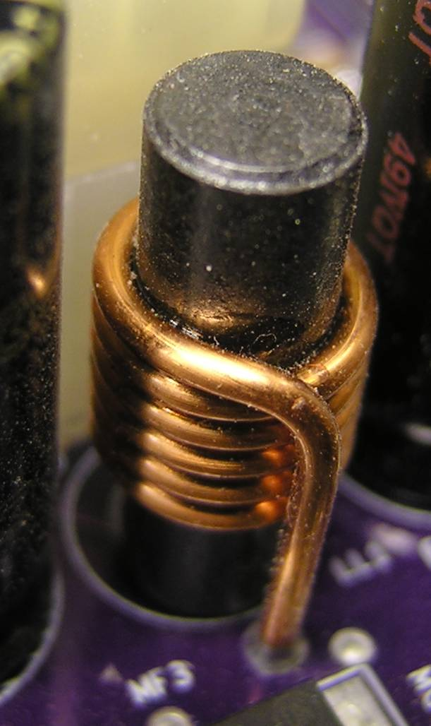 Inductor (probably part of the DC/DC converter) on the desktop PC motherboard. Photo by Audrius Meskauskas.